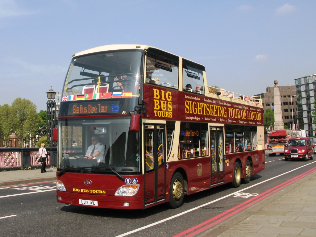 Big Bus Tour's AN341 (an Anhui Ankai registered LJ12JVL) crossing Lambeth Bridge during its tour of London.